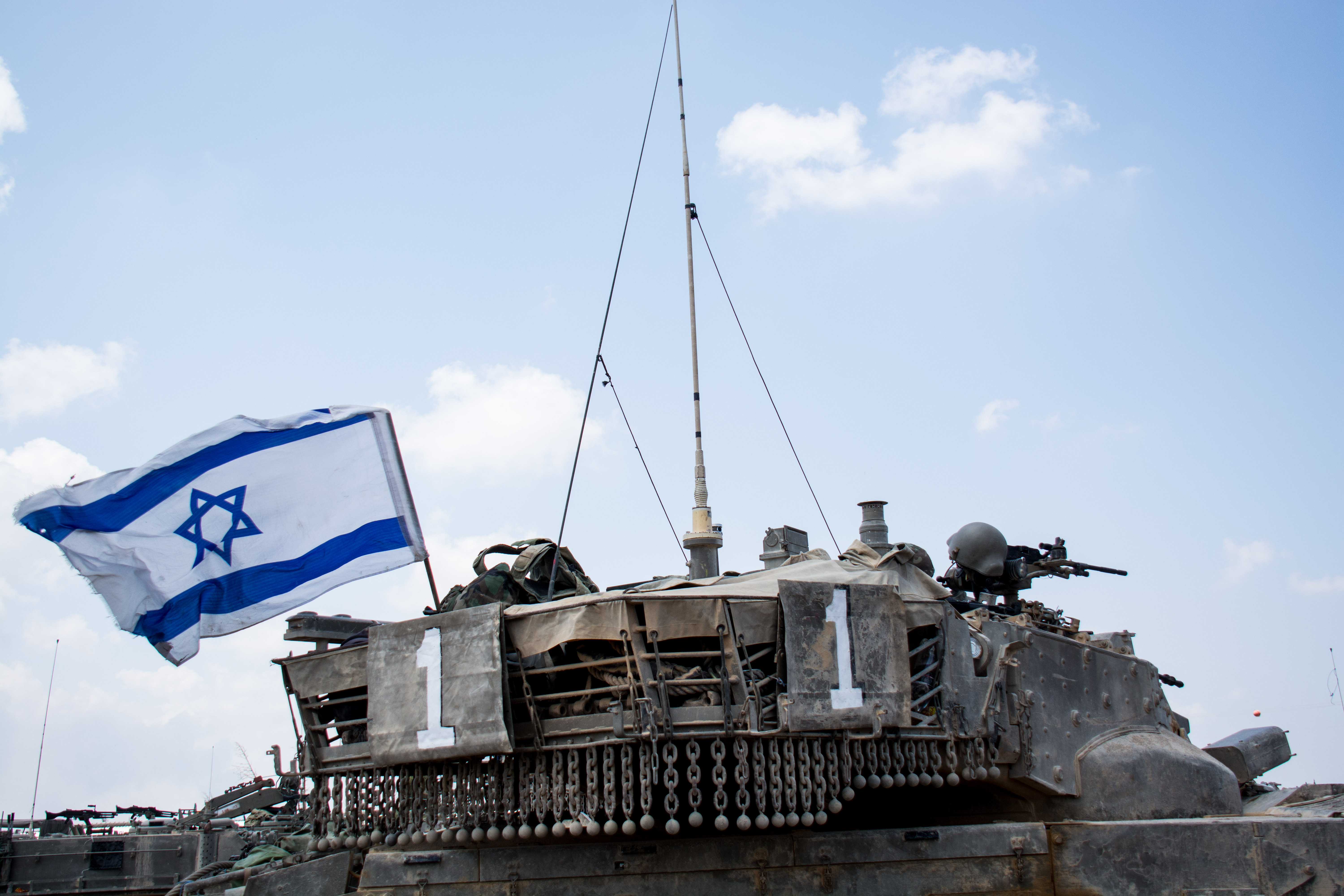 For more updates: The Israel Defense Forces Facebook The Israel Defense Forces blog Follow us on Twitter